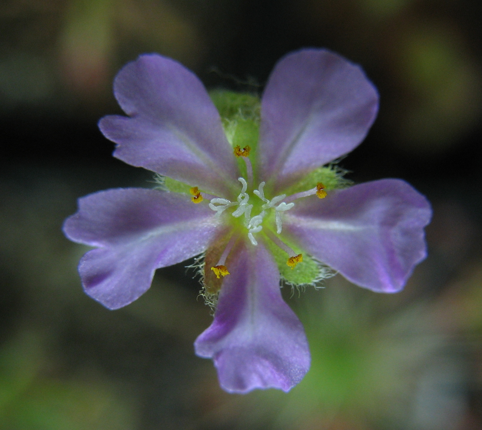 The author licensed this picture in a letter to the uploader as follows: "Ich lizensiere die Bilder [..] unter der GNU-FDL." (Translation: "I license the pictures [..] as GNU-FDL.") Flower of Drosera paradoxa